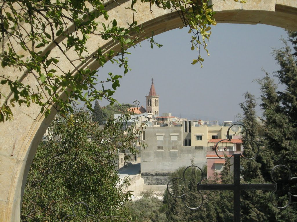 Yakubiyah as seen from St. Anna Armenian church